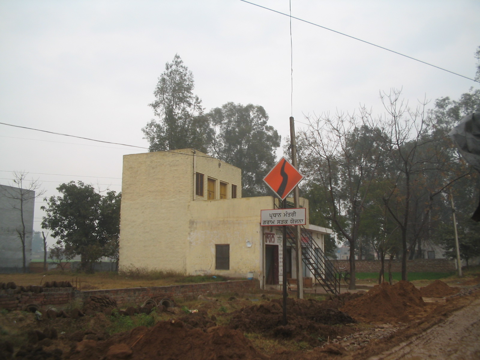 The 'Pradhan Mantri Gram Sadak Yojana or PMGSY is a nationwide plan in India to provide good all-weather road connectivity to unconnected villages. It is under the authority of the Ministry of Rural Development and was begun on 25 December 2000. The goal was to provide roads to all villages (1) with a population of 1000 persons and above by 2003, (2) with a population of 500 persons and above by 2007, (3) in hill states, tribal and desert area villages with a population of 500 persons and above by 2003, and (4) in hill states, tribal and desert area villages with a population of 250 persons and above by 2007. In order to implement this an Online Management & Monitoring System or OMMS GIS system was developed to identify targets and monitor progress. This particular one in a village in Jalandhar District of Punjab, India -- Shot en route the marriage party of Sumeet Kaur and Satvir Singh with family.